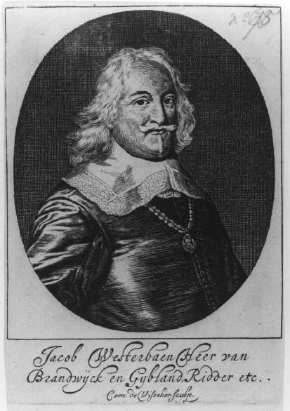 Portrait of Jacob Westerbaen